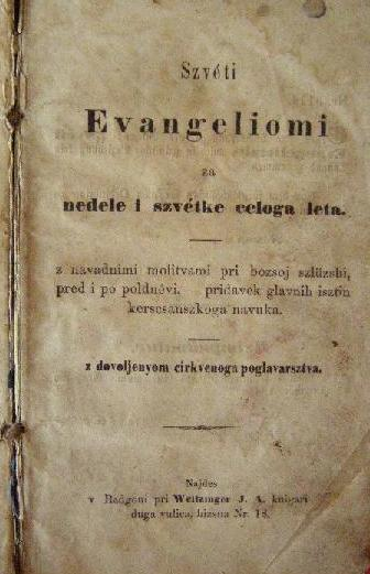 The new issue of the Prekmurian Gospel of Miklós Küzmics (the original issue was appear in 1780)